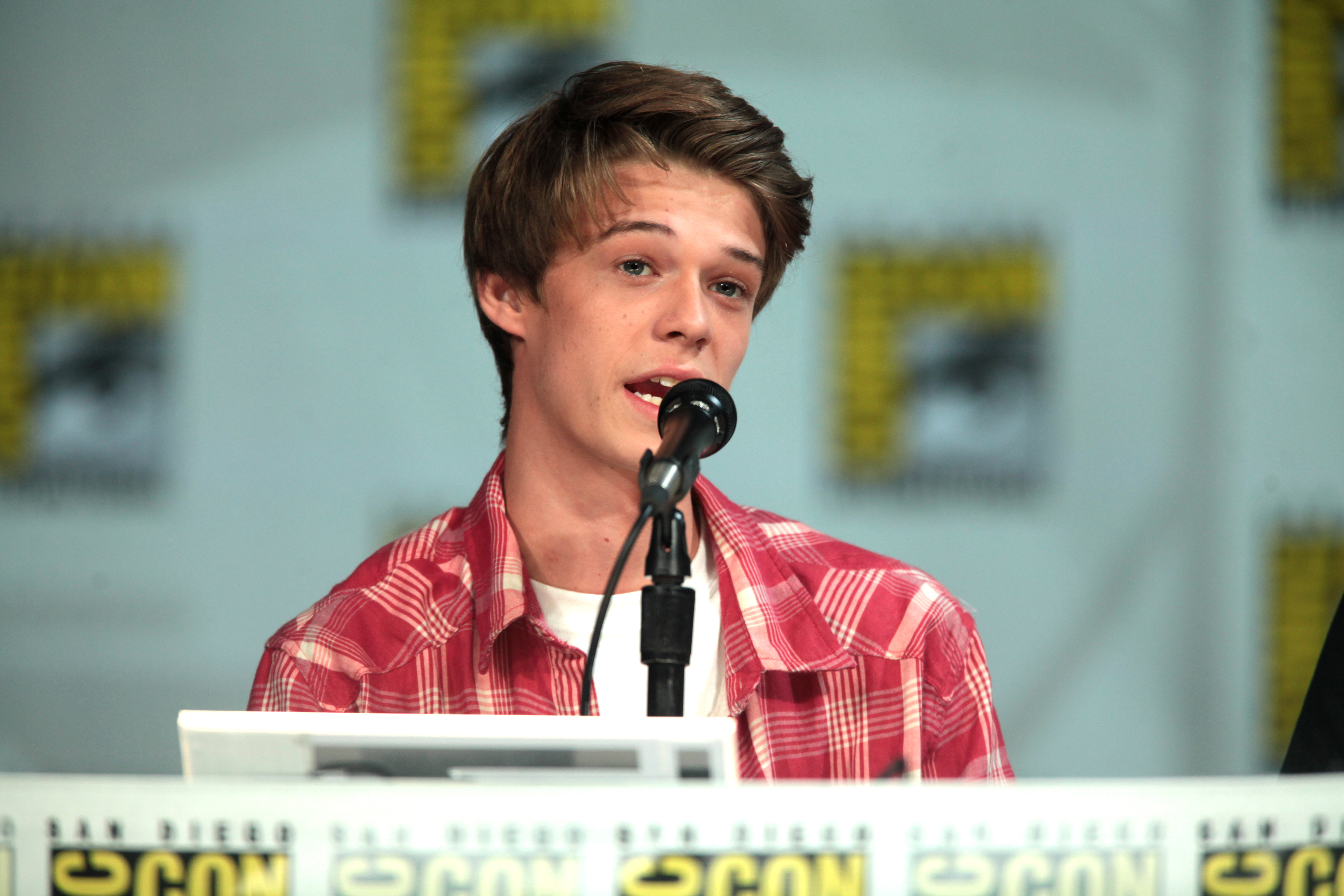 Colin Ford speaking at the 2014 San Diego Comic Con International, for "Under the Dome", at the San Diego Convention Center in San Diego, California.